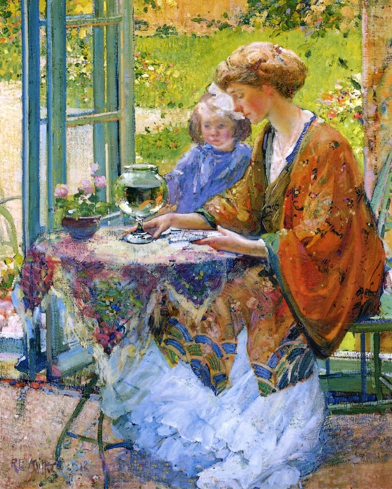 Goldfish